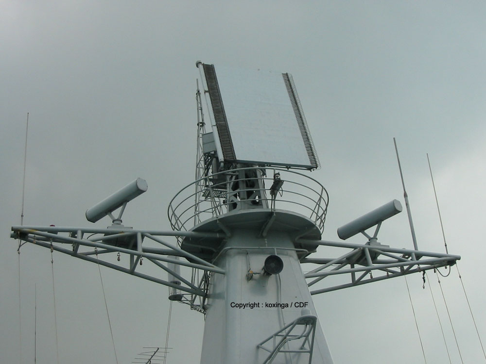 Photo taken by Author at IMDEX.